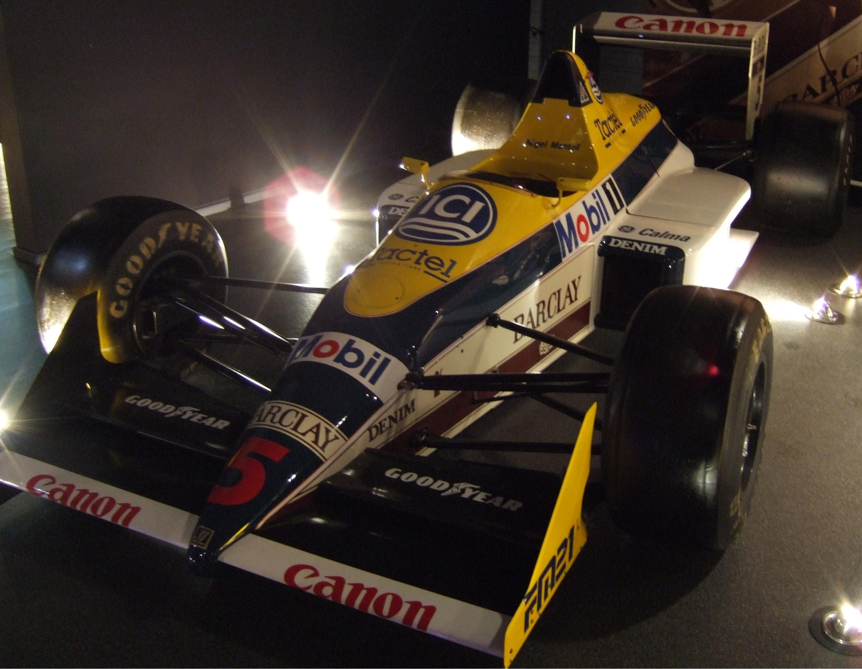 A Williams FW12 chassis.